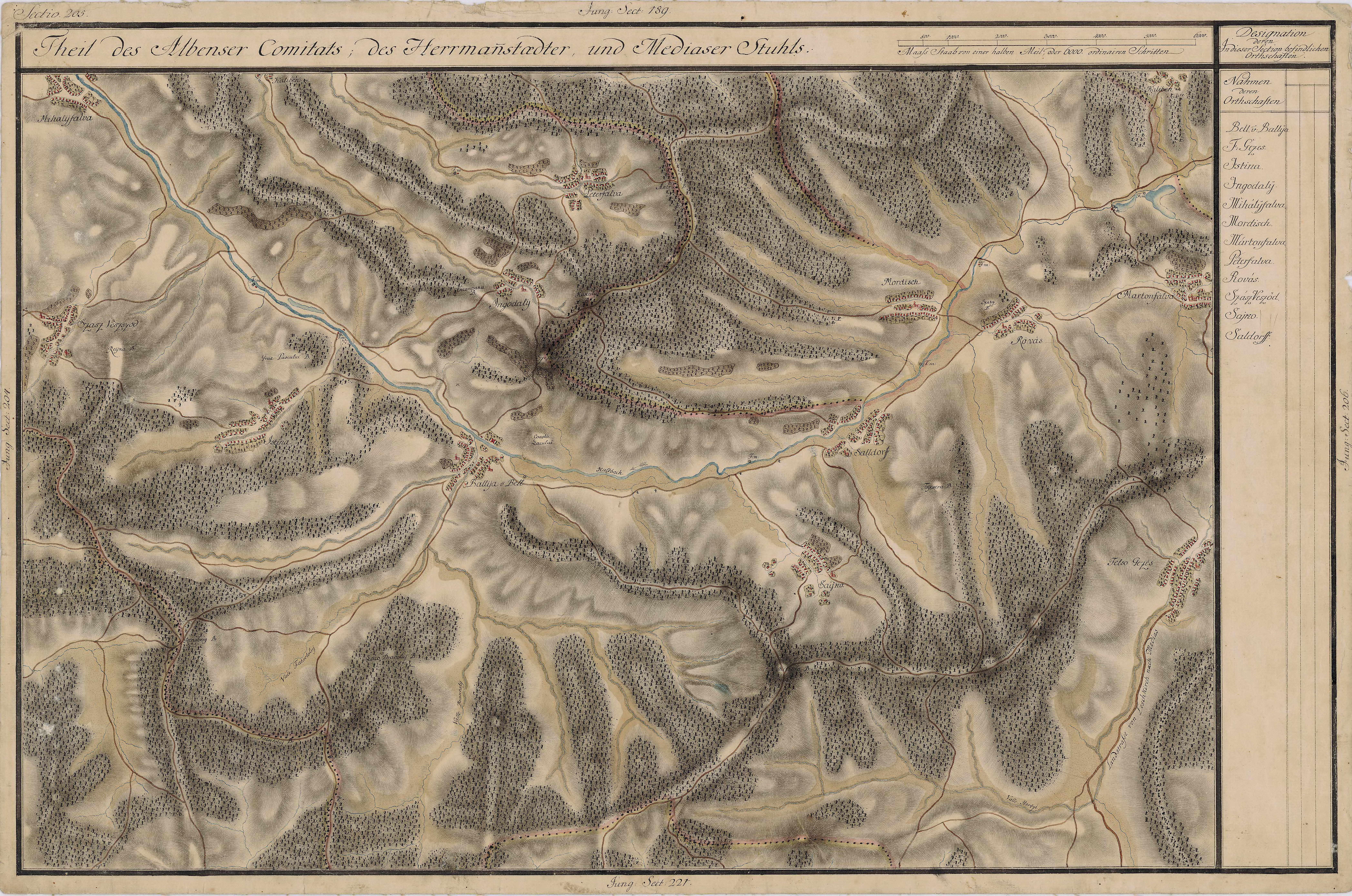 Grand Duchy of Transylvania, 1769-1773. Josephinische Landaufnahme pg.205